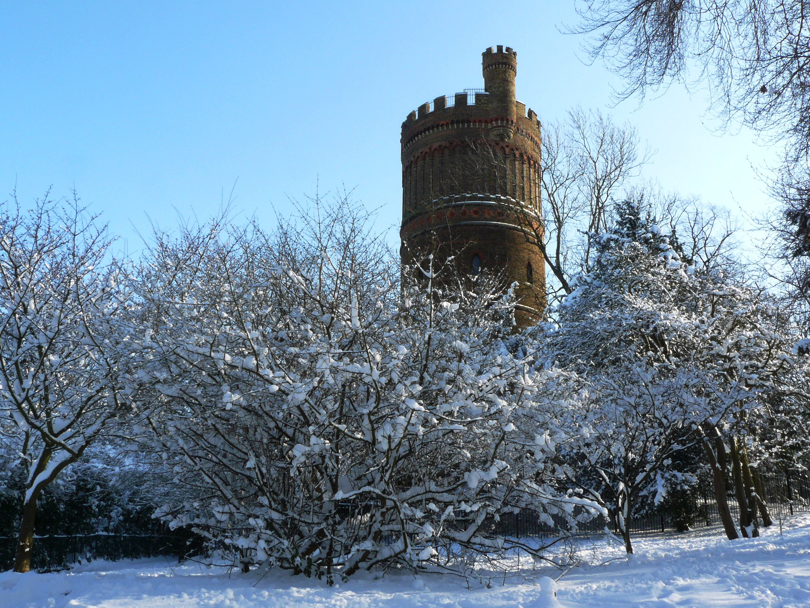 Water Tower, Park Hill A rare occasion on which a heavy snowfall made this attractive scene possible.